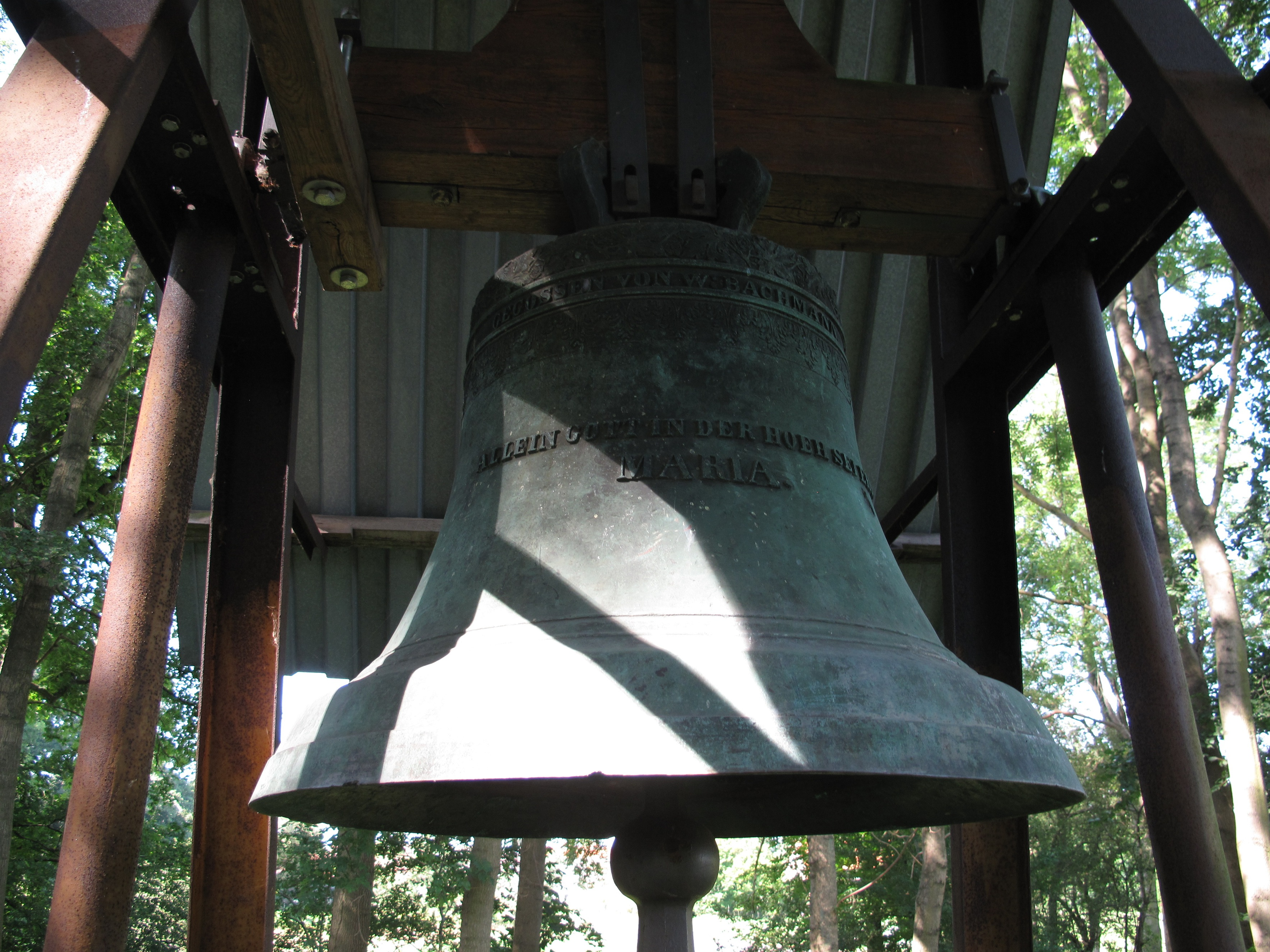 Listed village and Fieldstone church in Grunow, a village of the municipality Oberbarnim in the District Märkisch-Oderland, Brandenburg, Germany. The church was built in the 13th-century. The steeple was ripped off in 1829; today’s bell, cast in 1874 in Berlin by W. Bachmann, is situated in a wooden bell tower beside the church. The church has the unusually high number of seven Schachbrettsteinen (german for: chessboard stones) and an in this region unique stone with the Jerusalem cross.